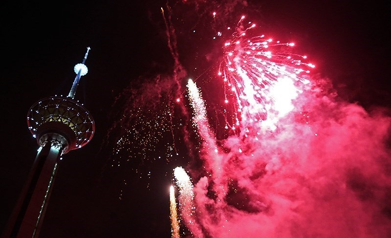 Iranian Revolution anniversary celebrations